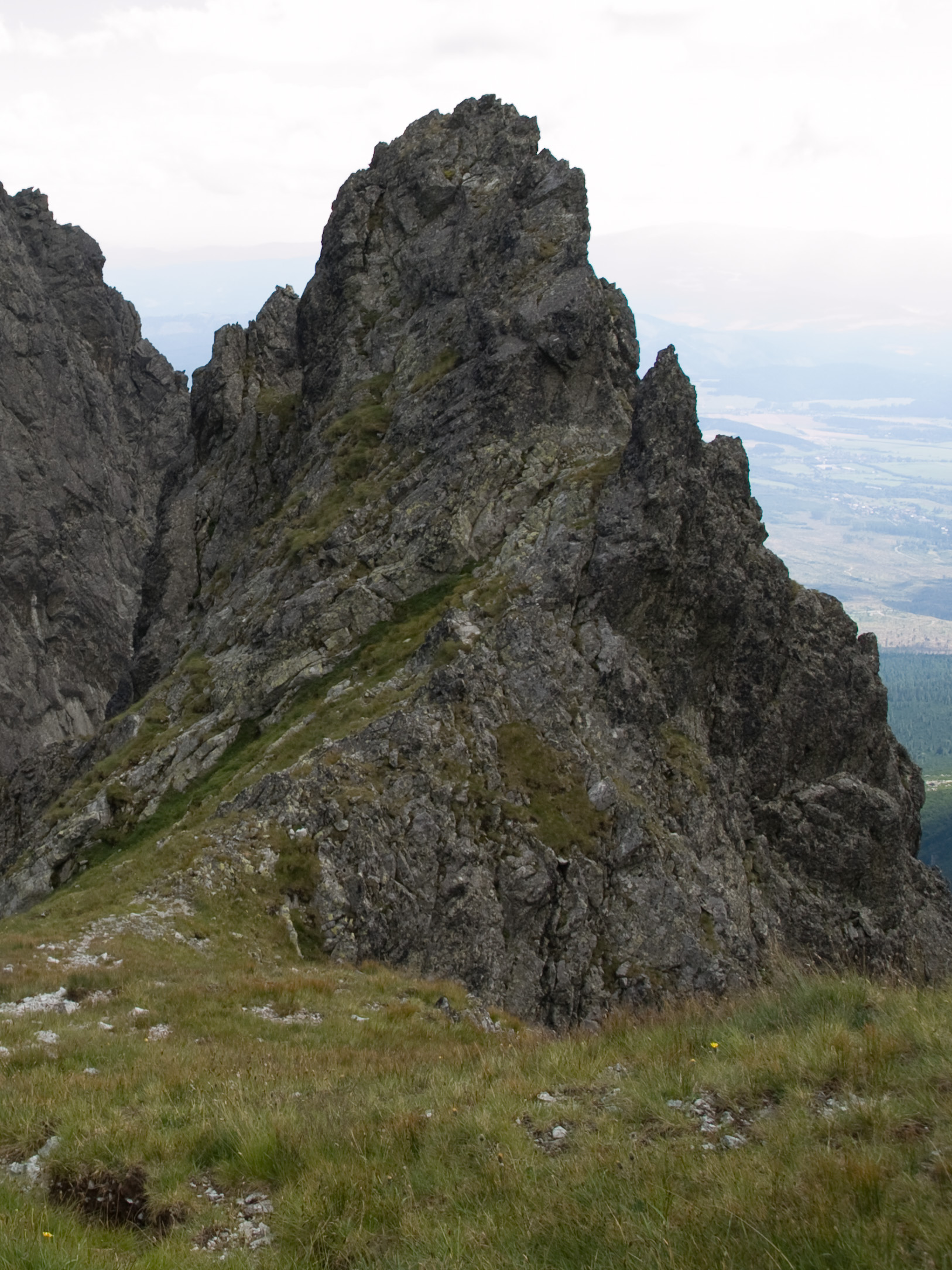 Granátová vežička